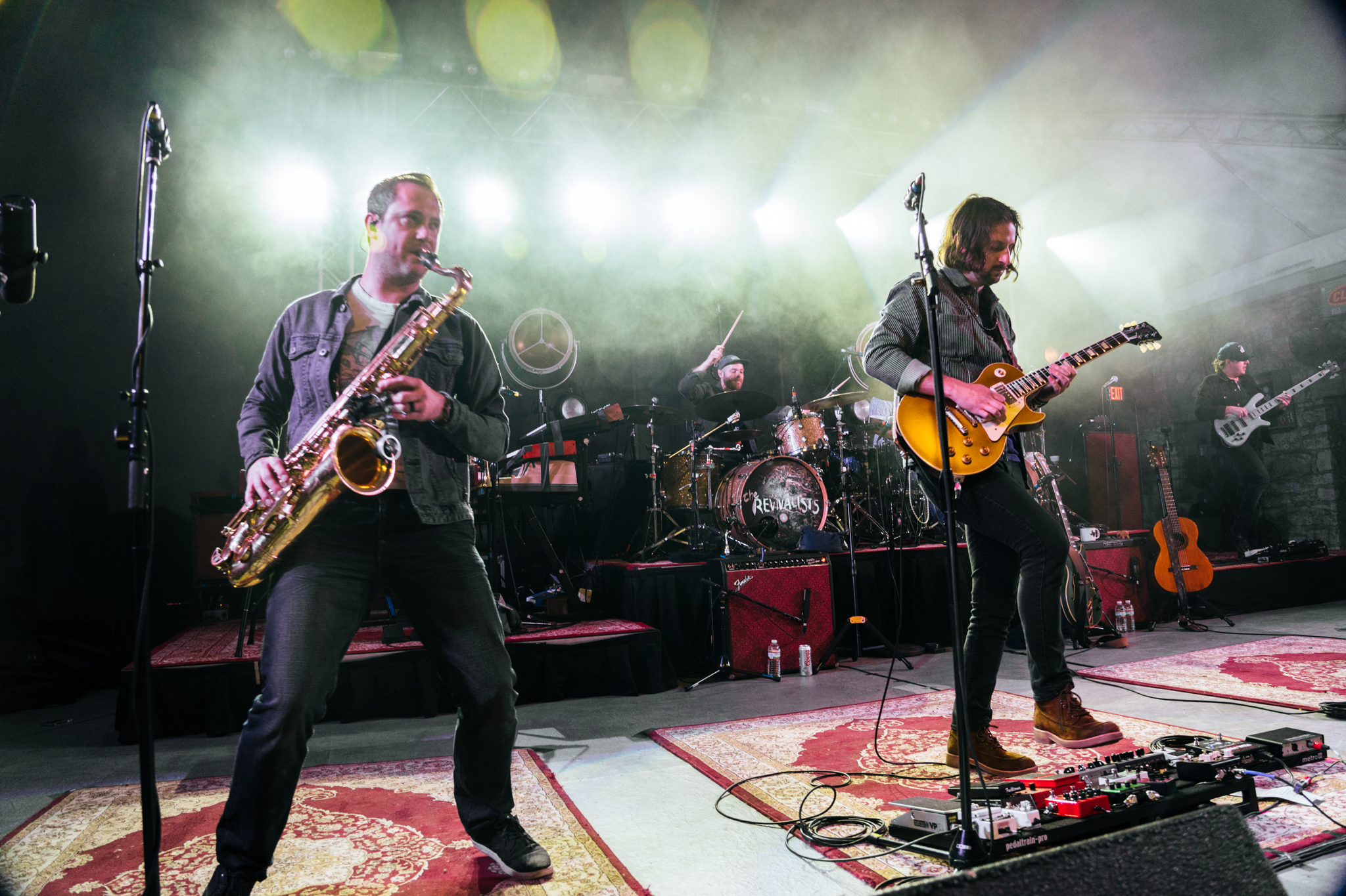 The Revivalists at Stubb's Austin